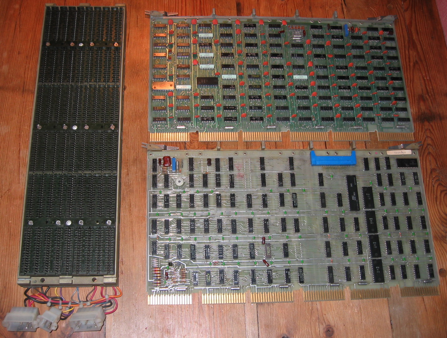 Bus of PDP-11 computer with some cards. Unibus, Backplane Bus